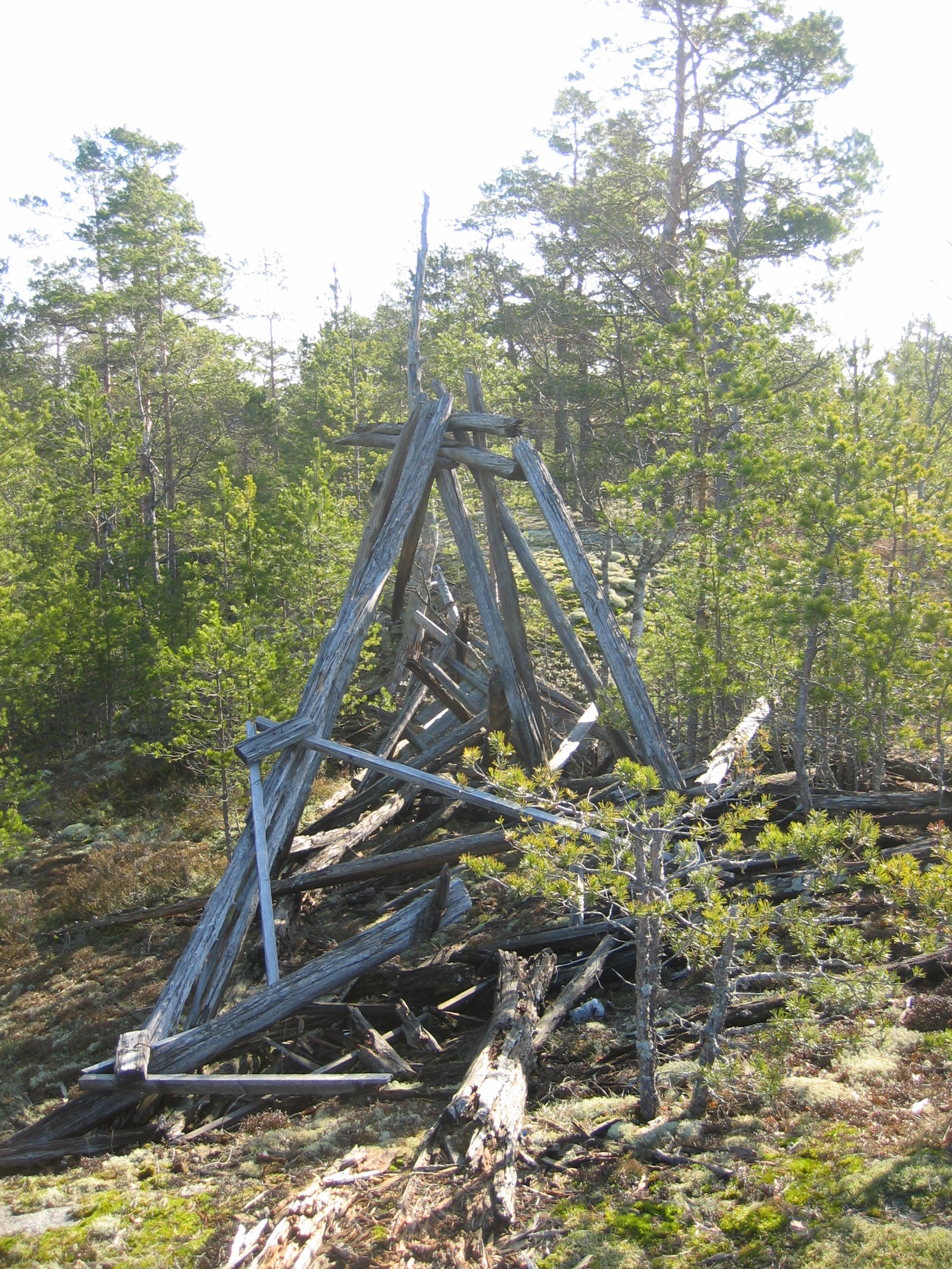 Mannuistenvuori hill in Mietoinen, Finland